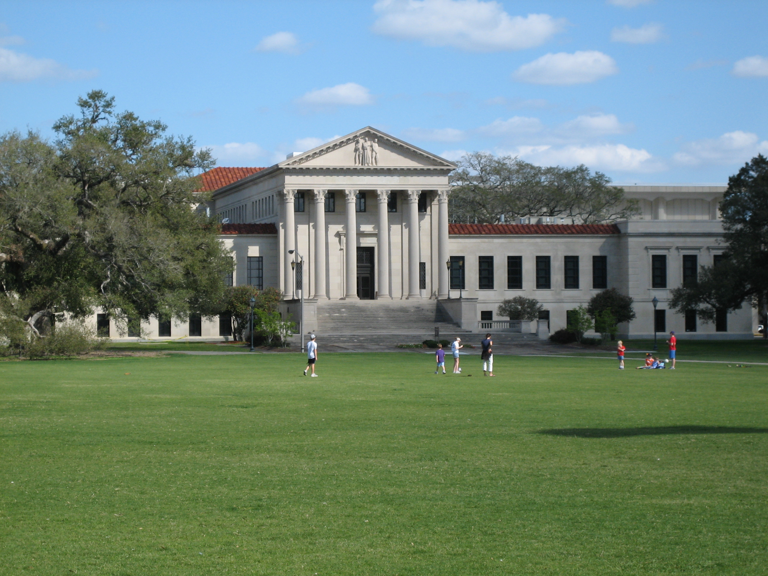 Facade of the Paul M. Hebert Law Center in Baton Rouge, Louisiana 28 February 2006.